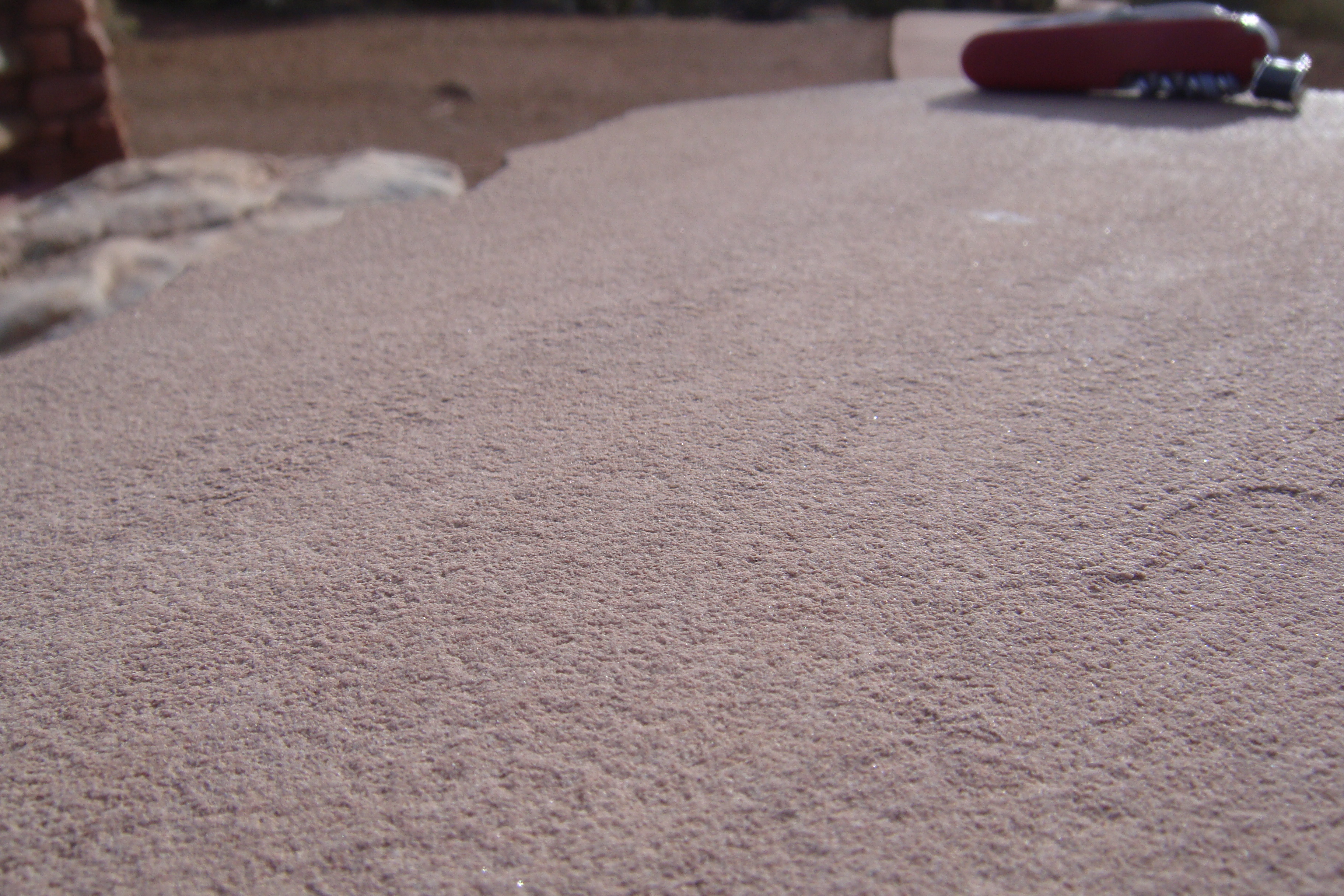 Parting lineation(s) (a sedimentary structure of aligned mineral grains from a rapid upper flow regime current) on the Kayenta Formation, Island in the Sky, Canyonlands National Park. The lineation can be seen as a line of minerals from the lower left to the upper right. Pocket knife (upper right) for scale.